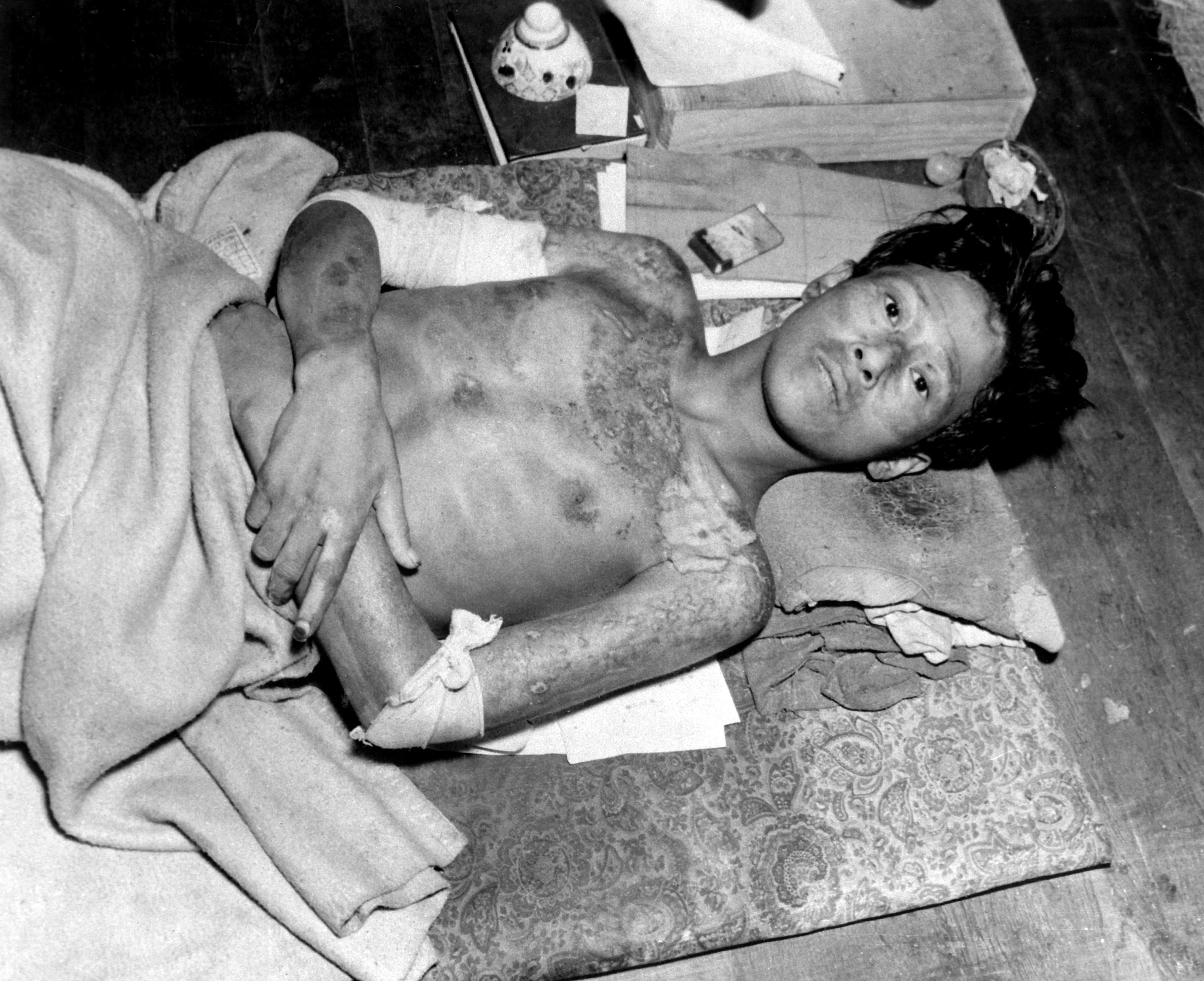 Victim of the Atom Bomb Explosion over Nagasaki in 1945.